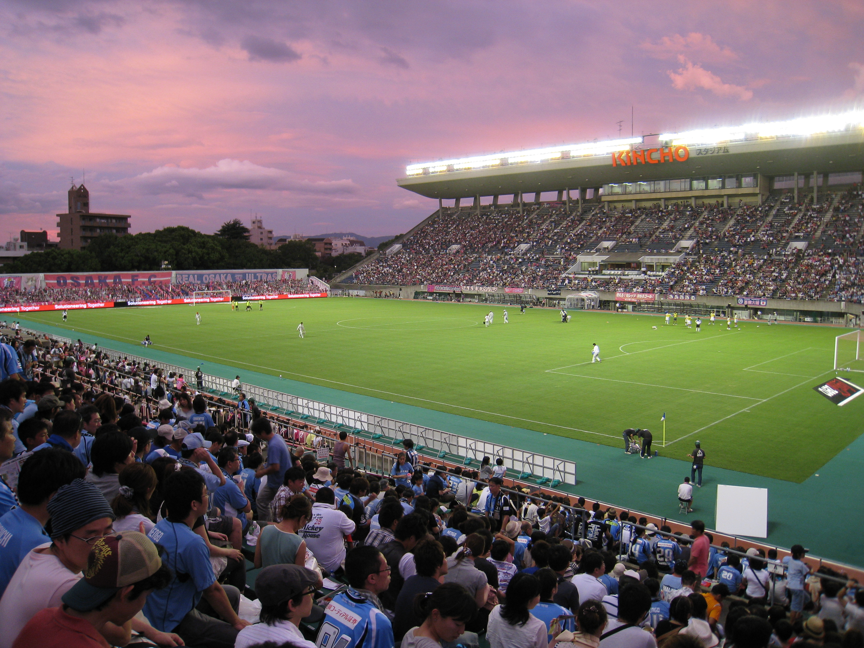 Kincho-stadium Mainstand.